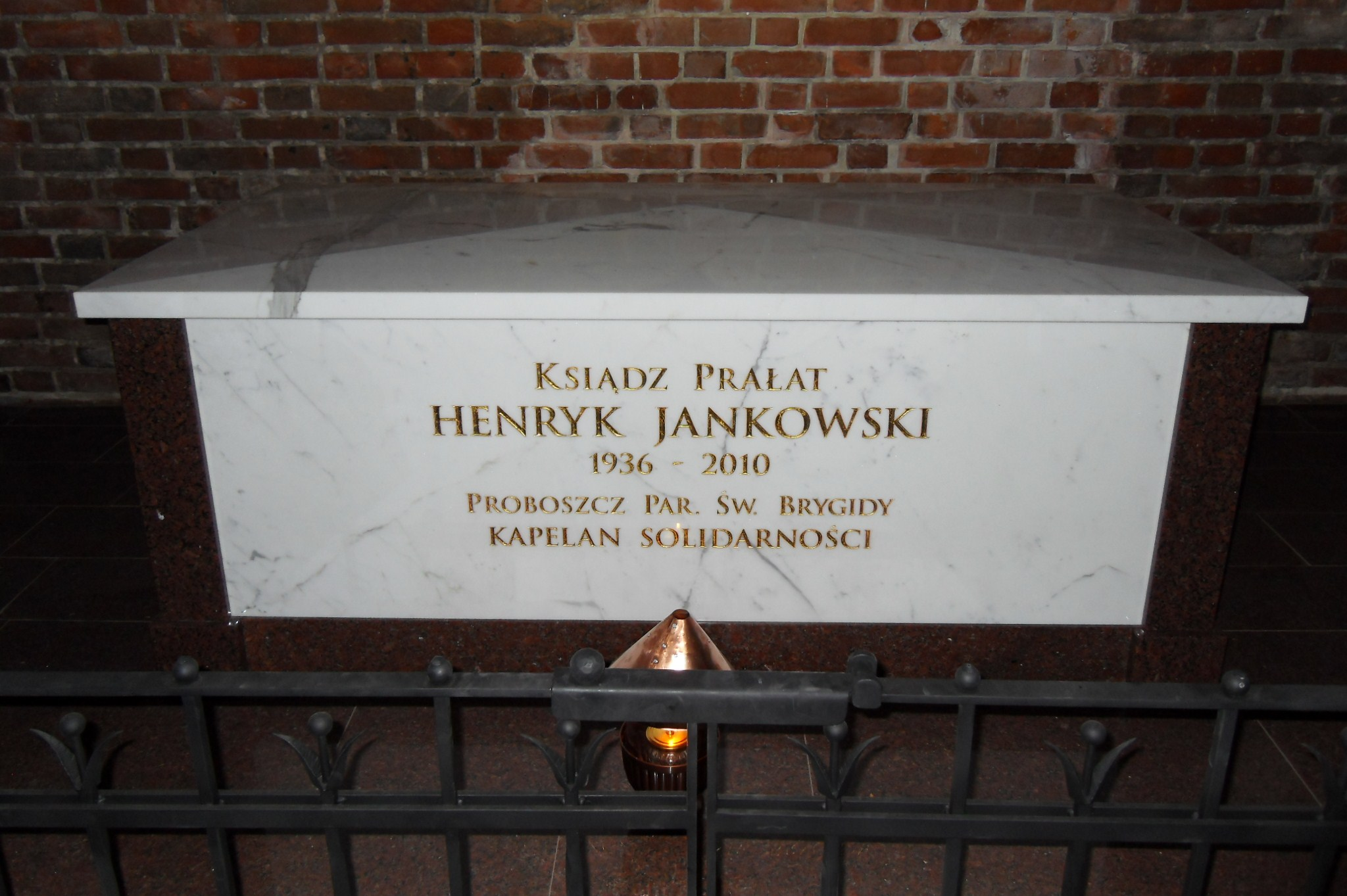 A priest Henryk Jankowski's gravestone in Church of St. Bridget in Gdańsk (Poland).